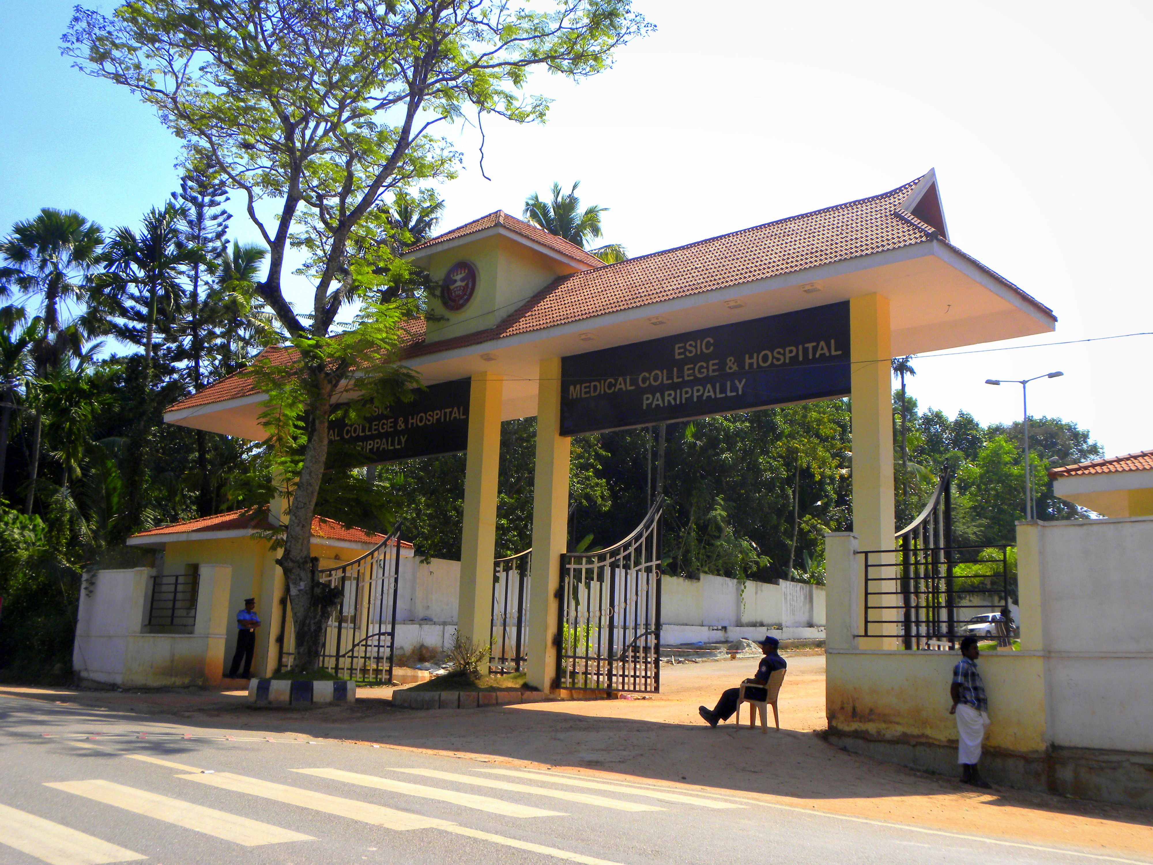 ESIC Medical College, Parippally - One and only medical college Employees' State Insurance Corporation owned medical college in Kerala State. Located at Kollam District